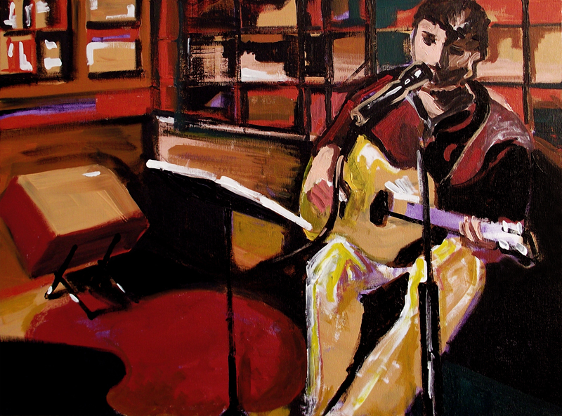 Photograph of a painting with the consent of the author.